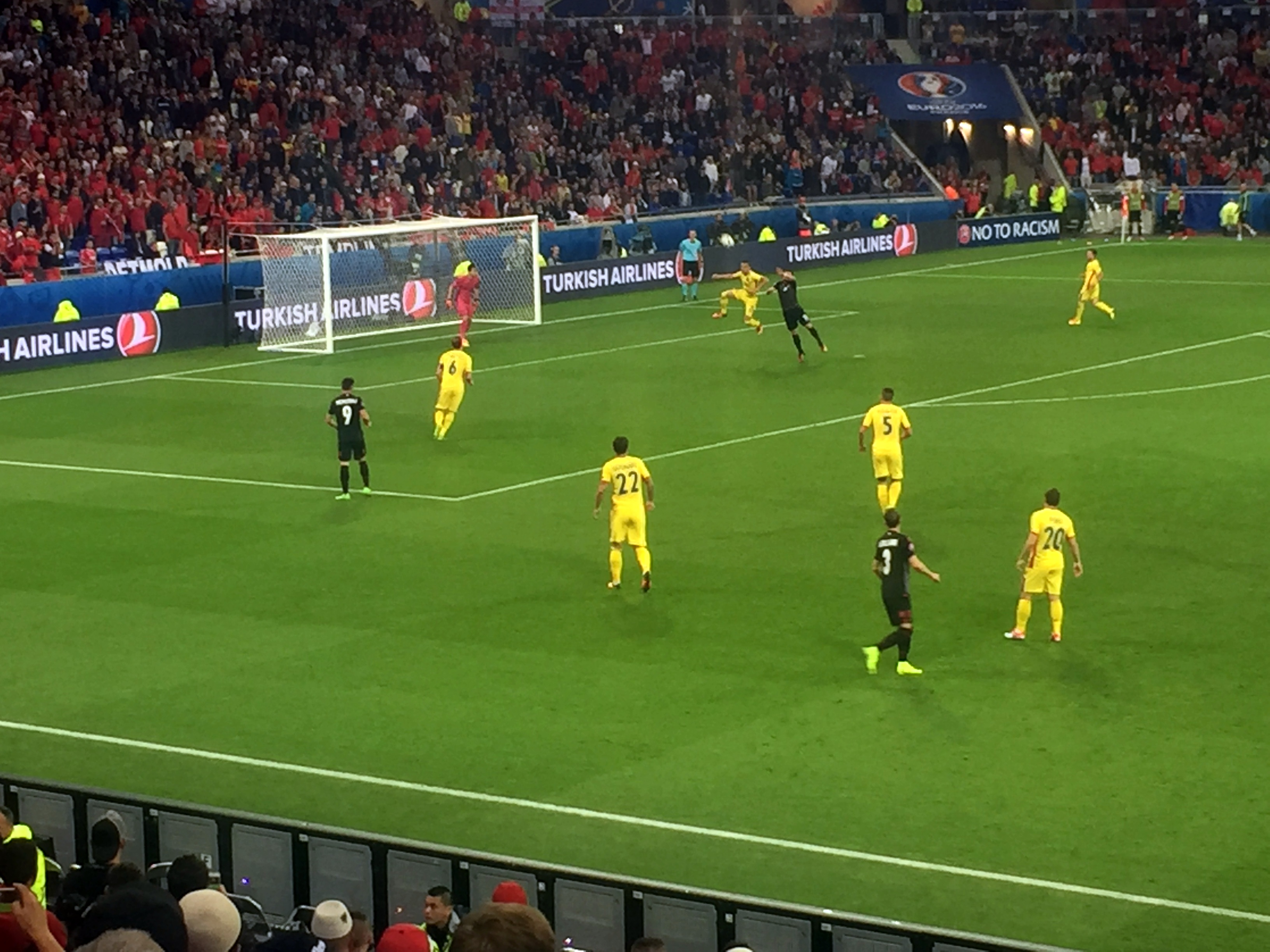 Romania-Albania (2016-06-19)